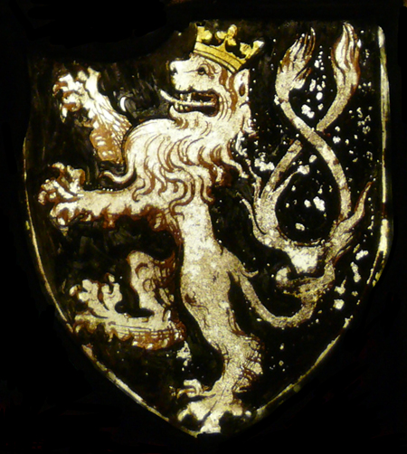 Lion